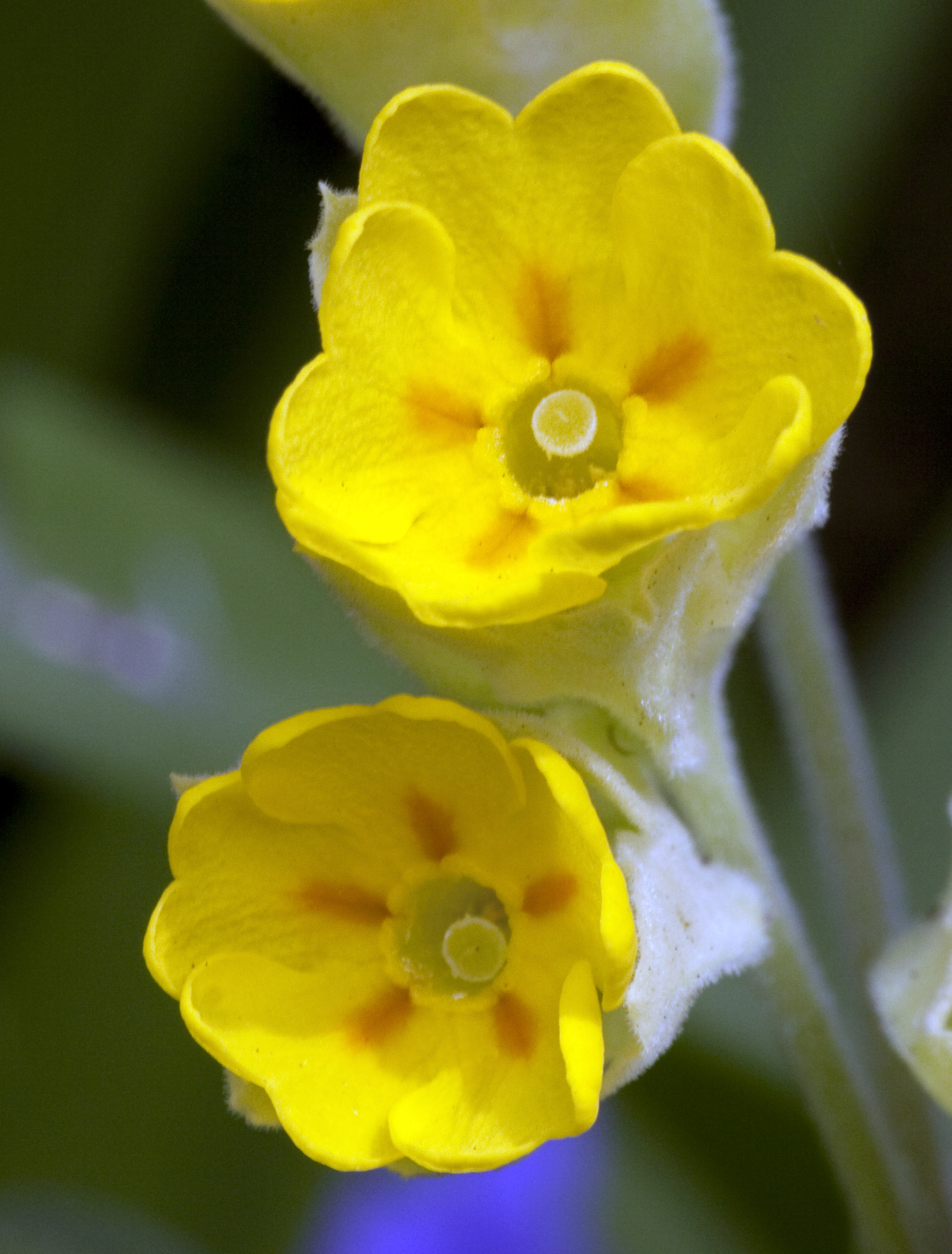 Cowslip